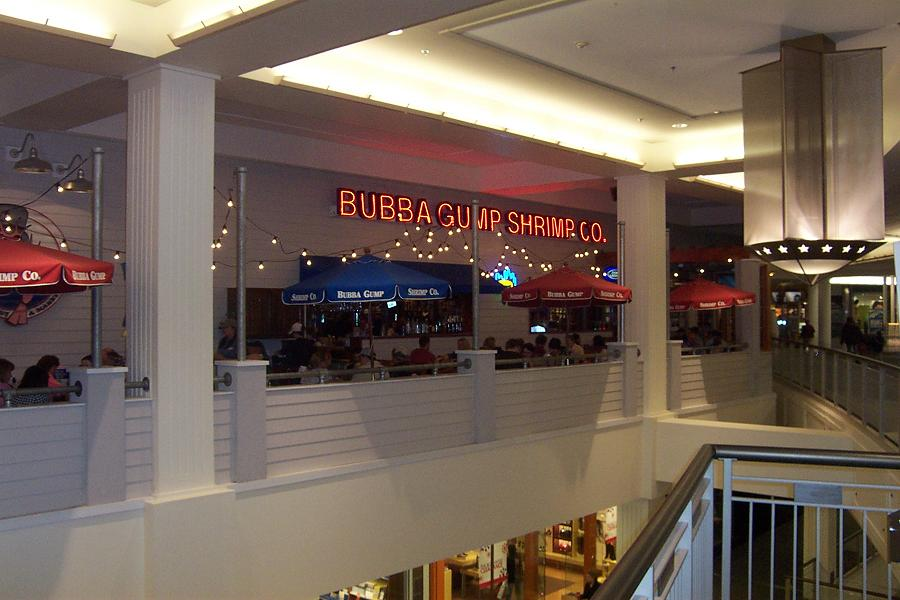 Bubba Gump Shrimp Company at Mall of America